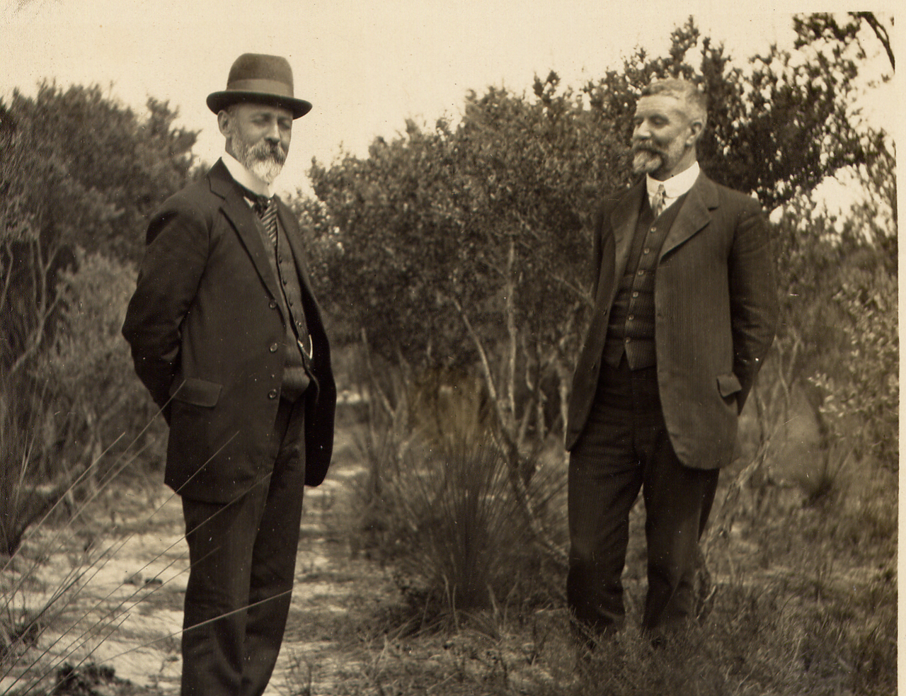 Joseph Cook and Alfred Deakin at Point Lonsdale